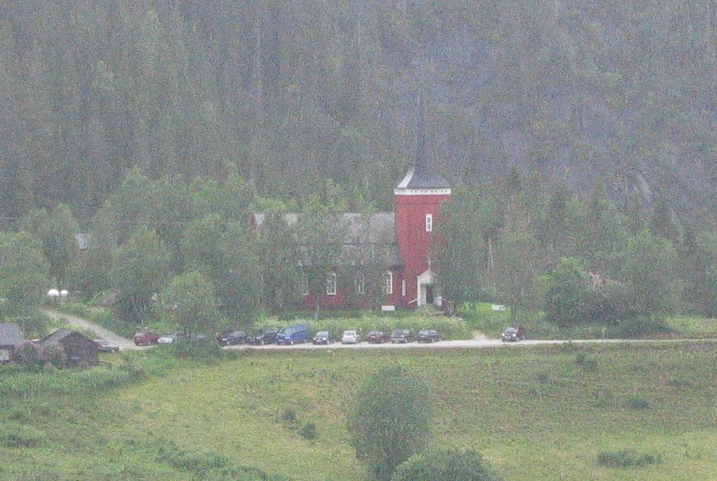 Elsfjord kirke, "Elsfjord church" in Elsfjord, Nordland, Norway; Picture taken on a rainy day by user:ZorroIII